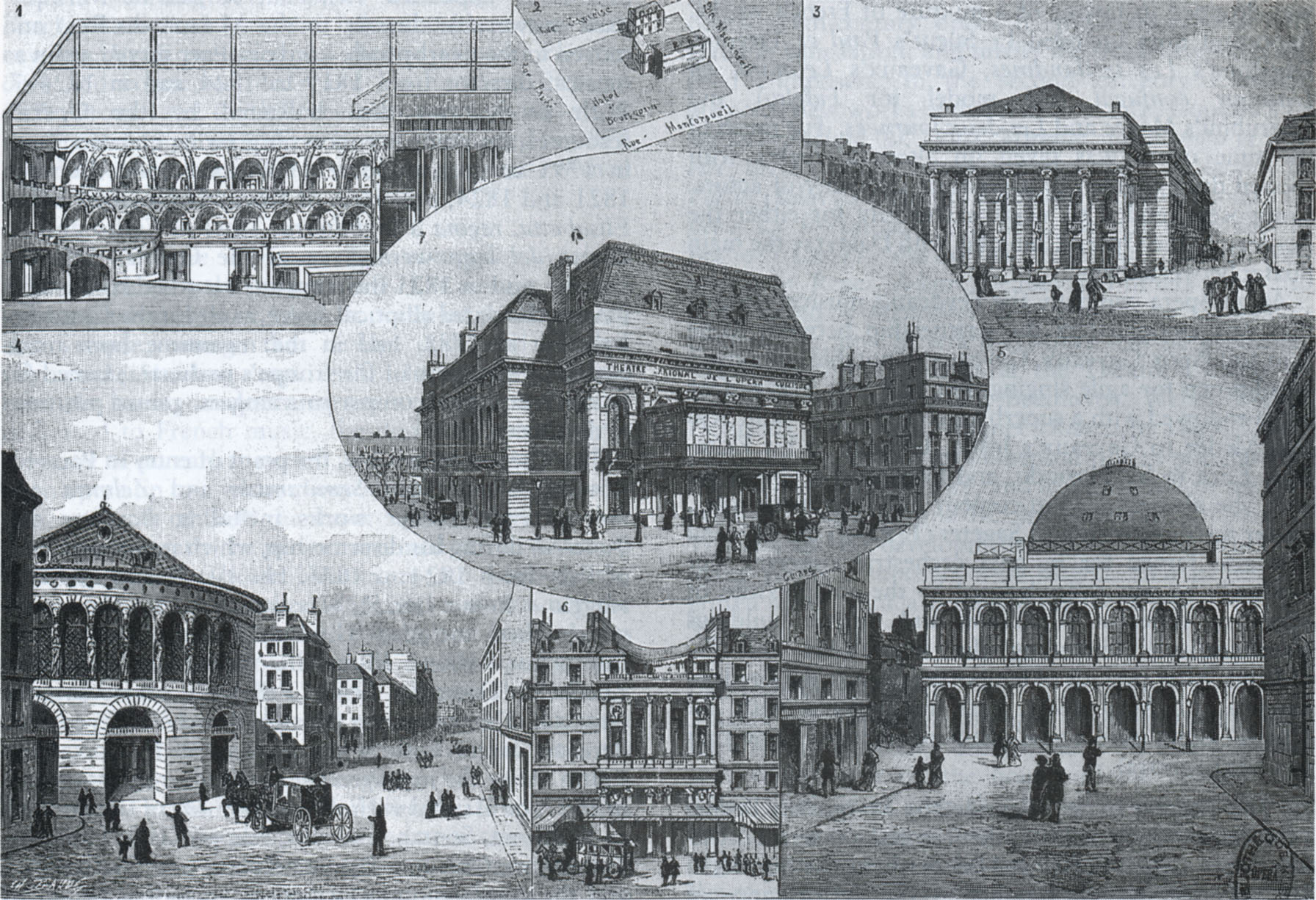 Theaters of the Opéra-Comique (engraving for the centenary 28 April 1883 of the first Salle Favart): 1. Salle de la Foire St Laurent; 2. Hôtel de Bourgogne; 3. Salle Favart (1); 4. Salle Feydeau; 5. Salle Ventadour; 6. Salle de la Bourse; 7. Salle Favart (2)